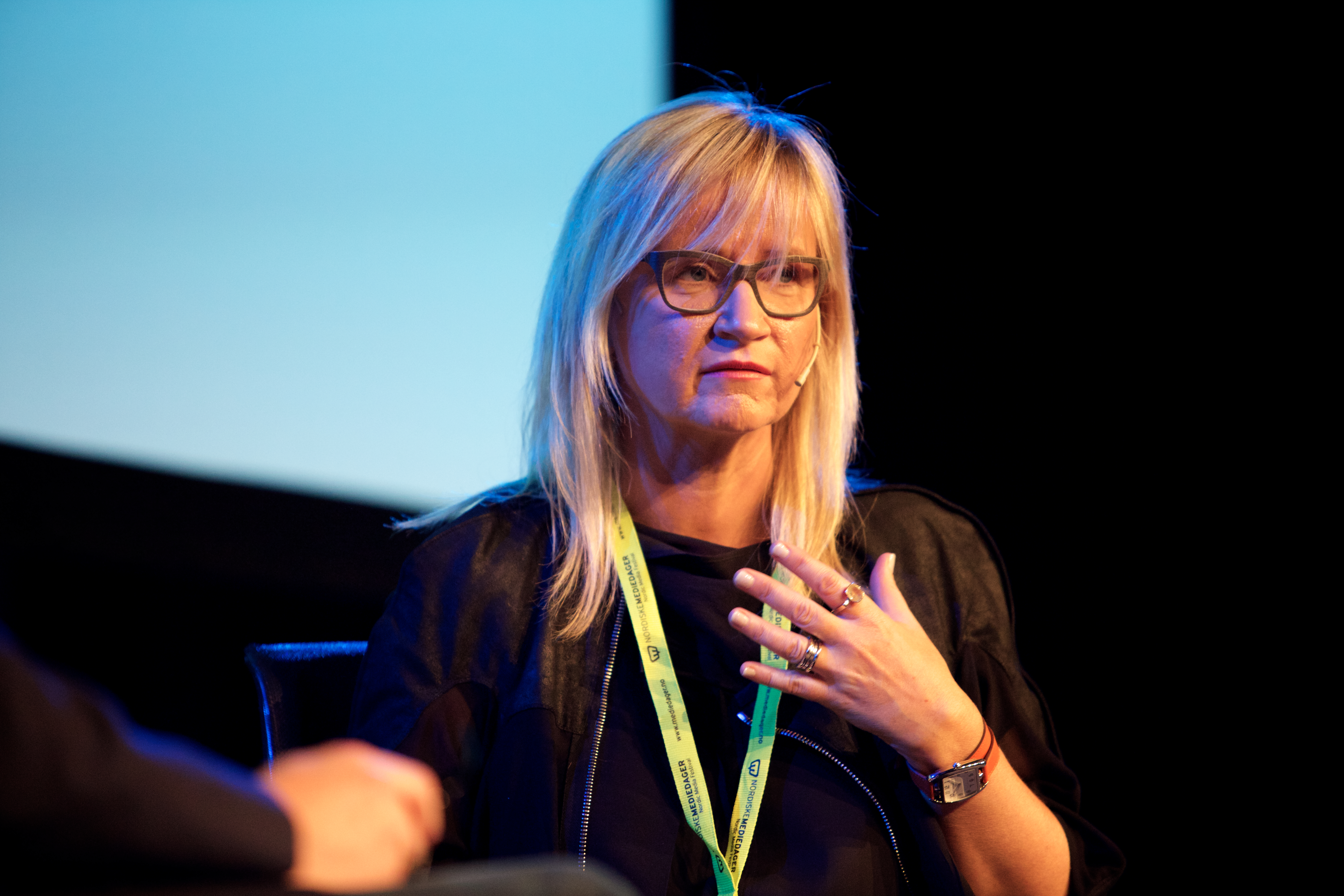 Medvirkende: Dee orbes (Discovery Networks Northern Europe), Thomas Henschien (On Off Bemanning AS).